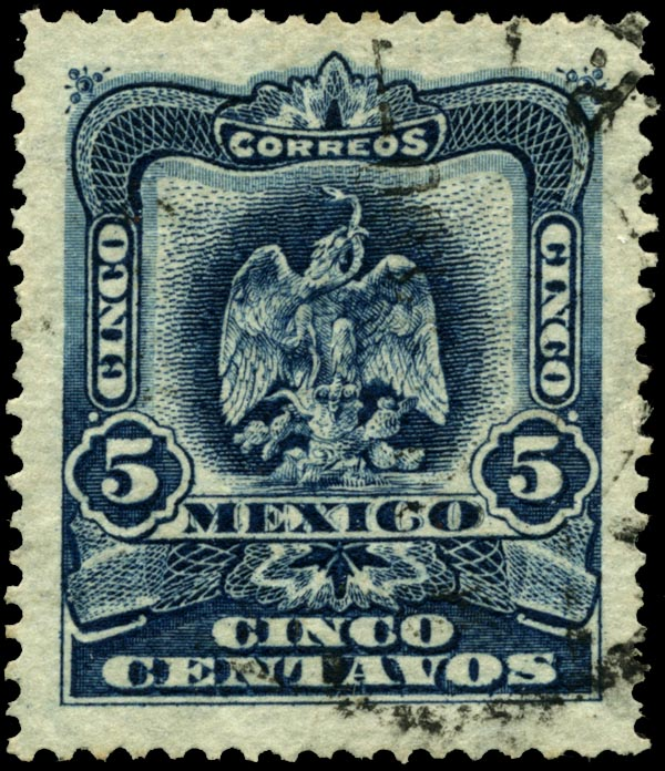 Mexico 5c stamp of 1899